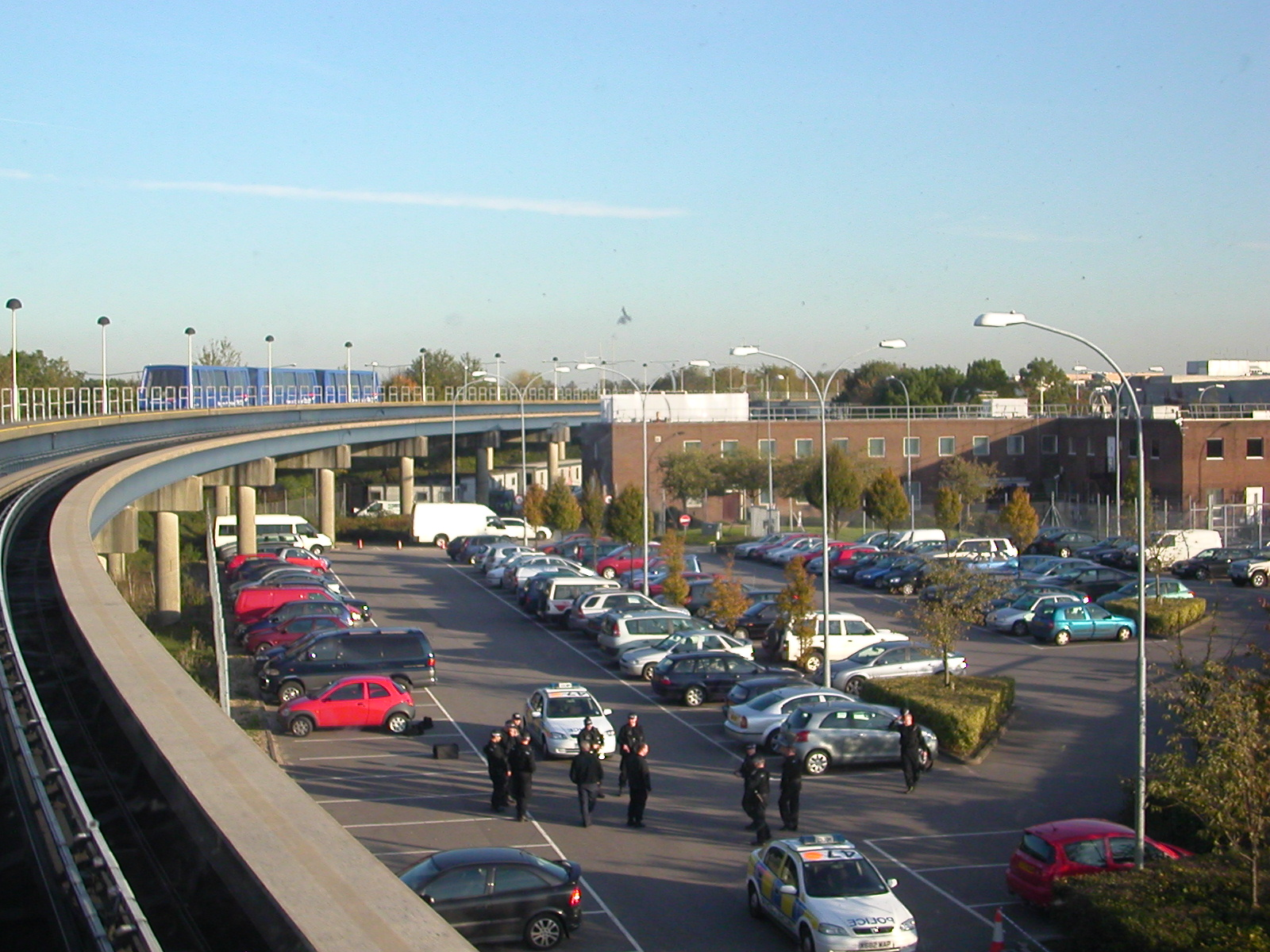 View from the front of a transit vehicle travelling towards the South Terminal. Photographed on 3rd November 2006.